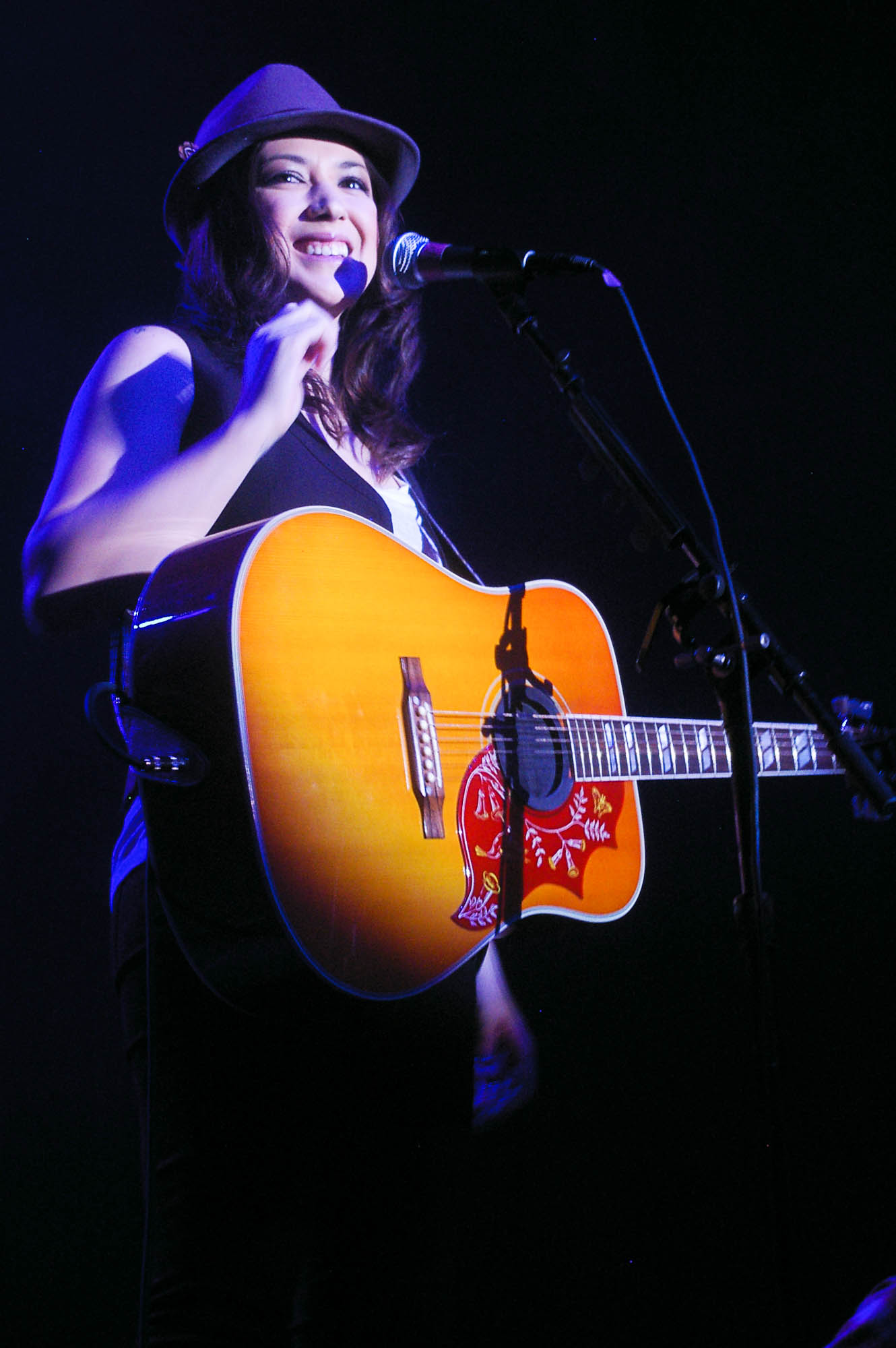 Michelle Branch Centennial Concert 2010-01-10